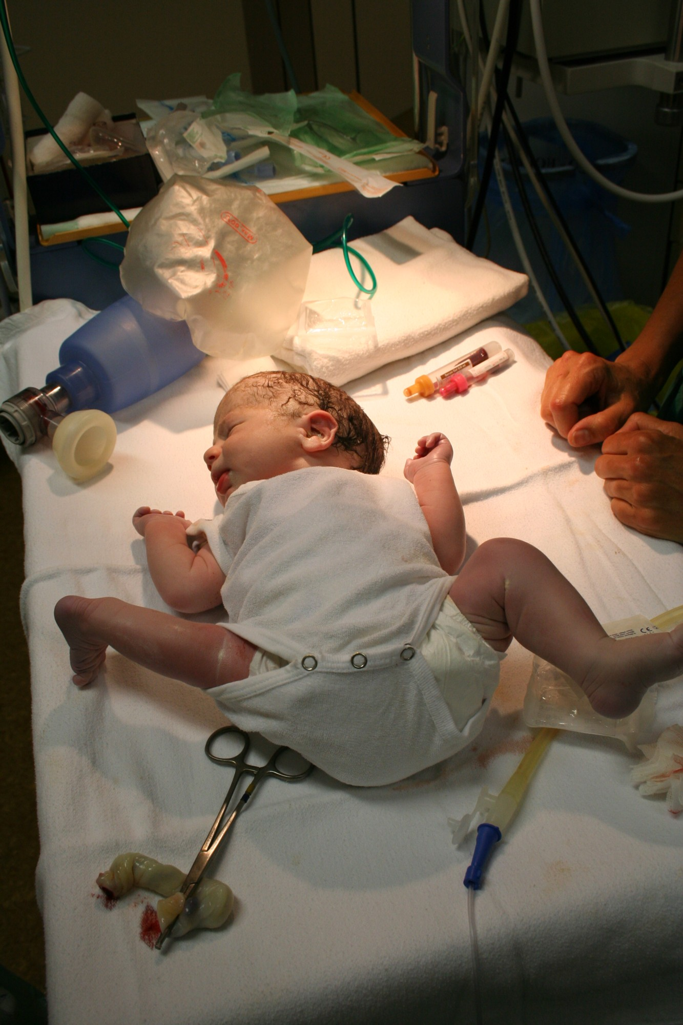 Newborn baby who has lain in imperfect position. Normally the legs correct themselves after a couple of days (own photograph)